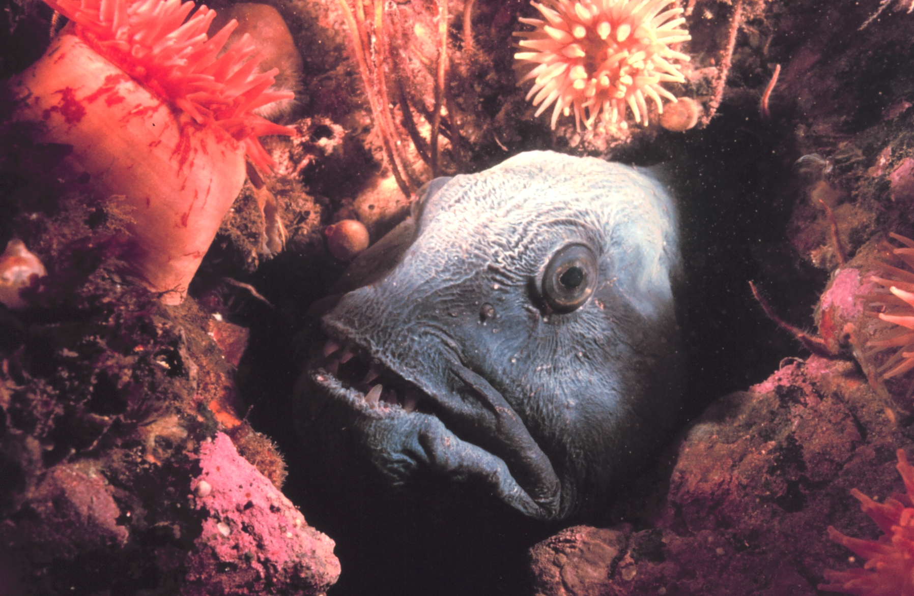 Seawolf (fish). (now at: original caption: A Wolf Fish - Anarhichas lupus - hiding in the rocks)